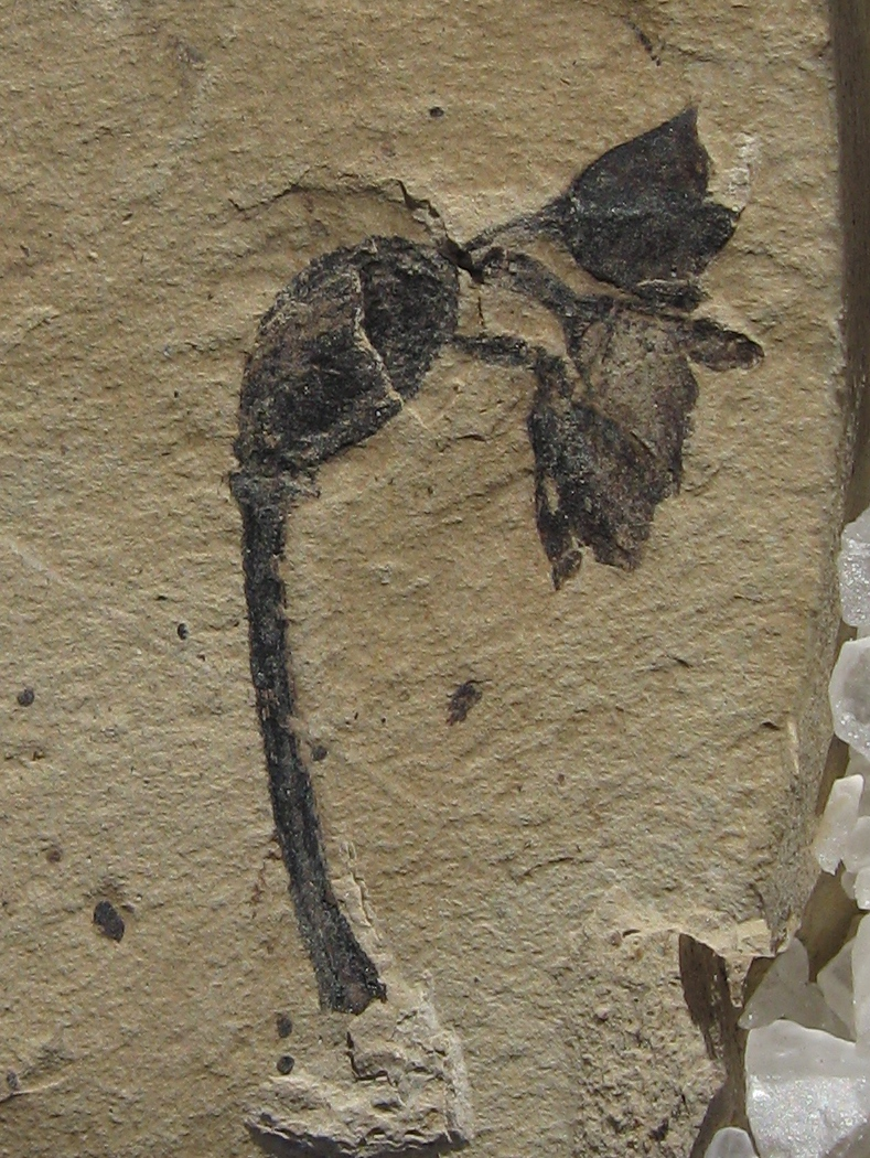 The 2.6 cm (1.0 in) holotype of Paleoallium billgenseli showing scape, spathe, and small flowers. 49 million years old, "Boot hill site" Klondike Mountain Formation, Republic, Washington. Stonerose Interpretive Center Collections #SR 10-35-06.